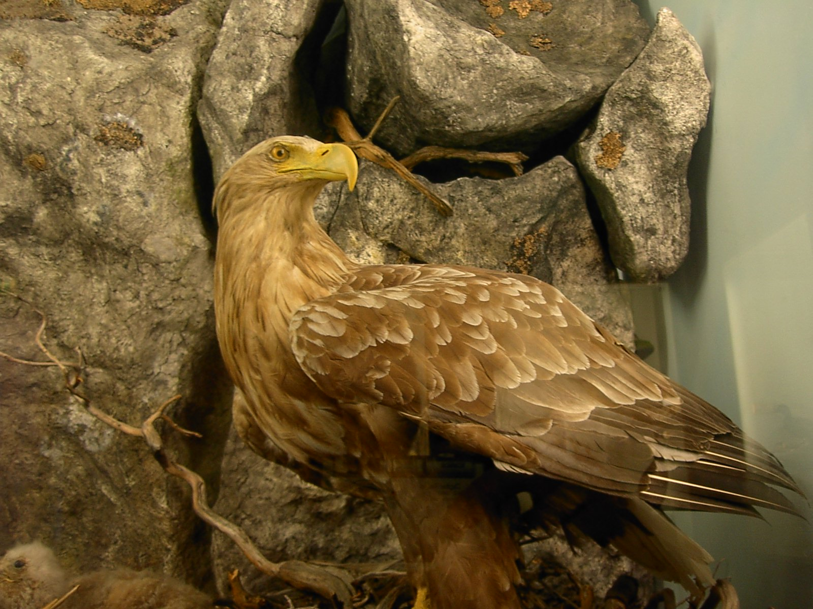 Stuffed eagle, Bergen